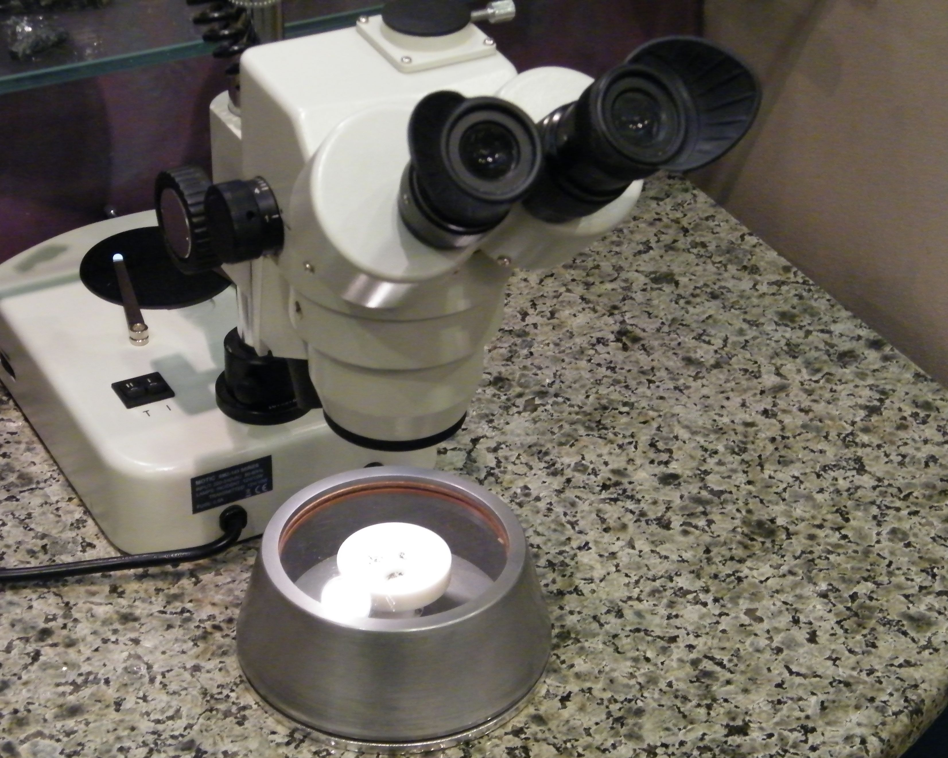 Лунный грунт в Хабаровском краеведческом музее